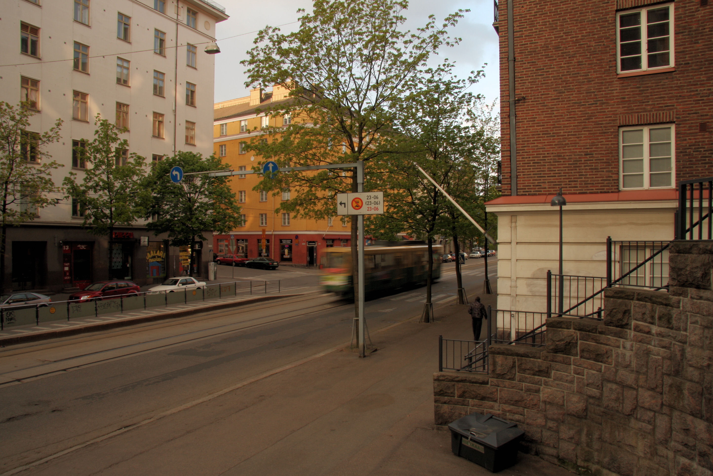 A tram on Helsinginkatu, Helsinki, Finland